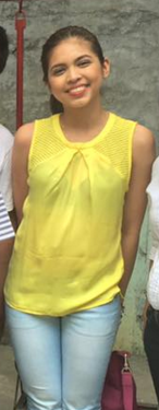 Maine Mendoza, the Dubsmash Queen of the Philippines